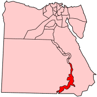 Map of Egypt showing Aswan governorate. Made by User:Golbez based on PD maps.